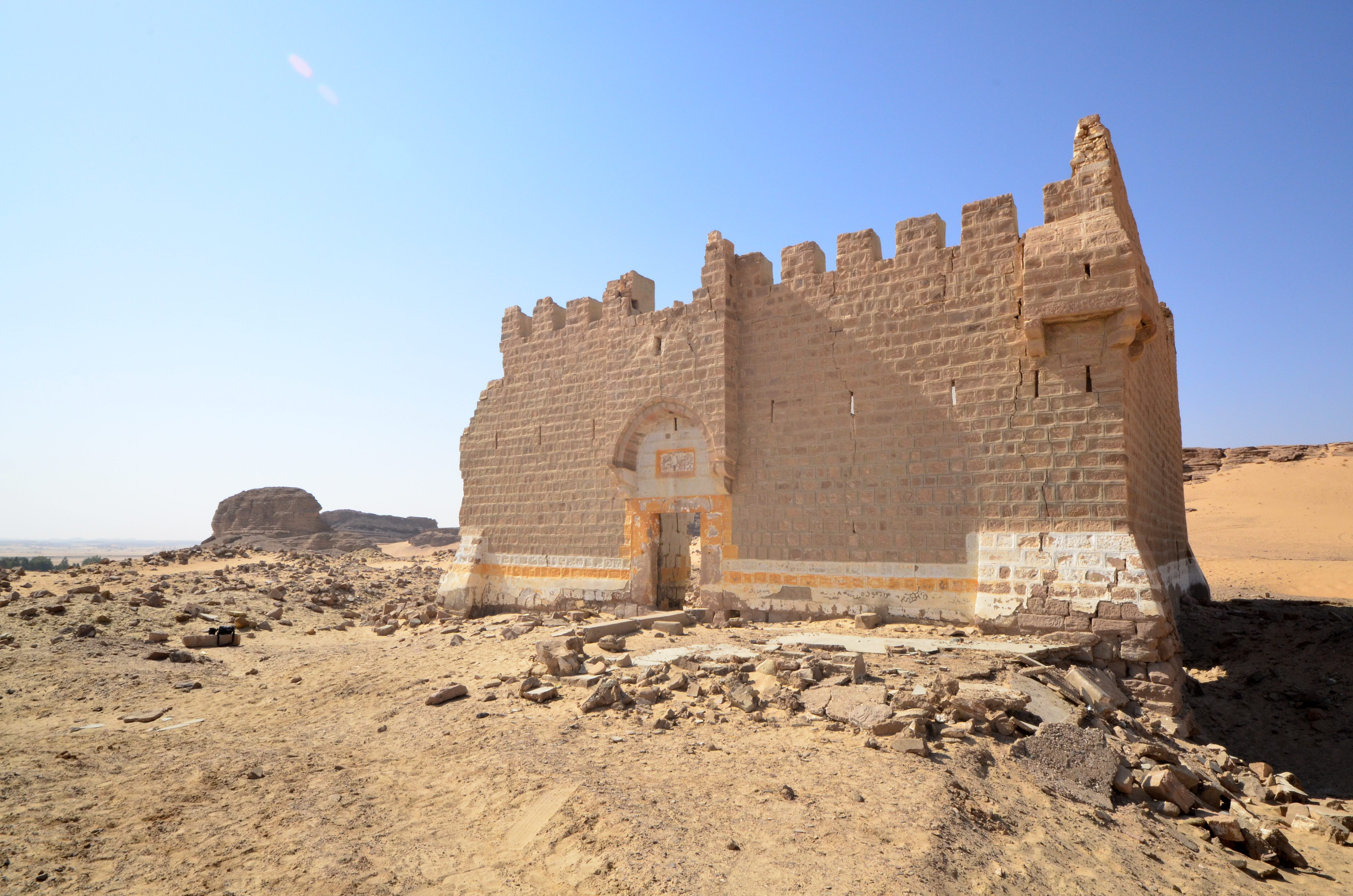 The north elevation of the Ottoman Fort at Mudawwara. It can be found 3.4 km to the west of the old Hejaz Railway station.